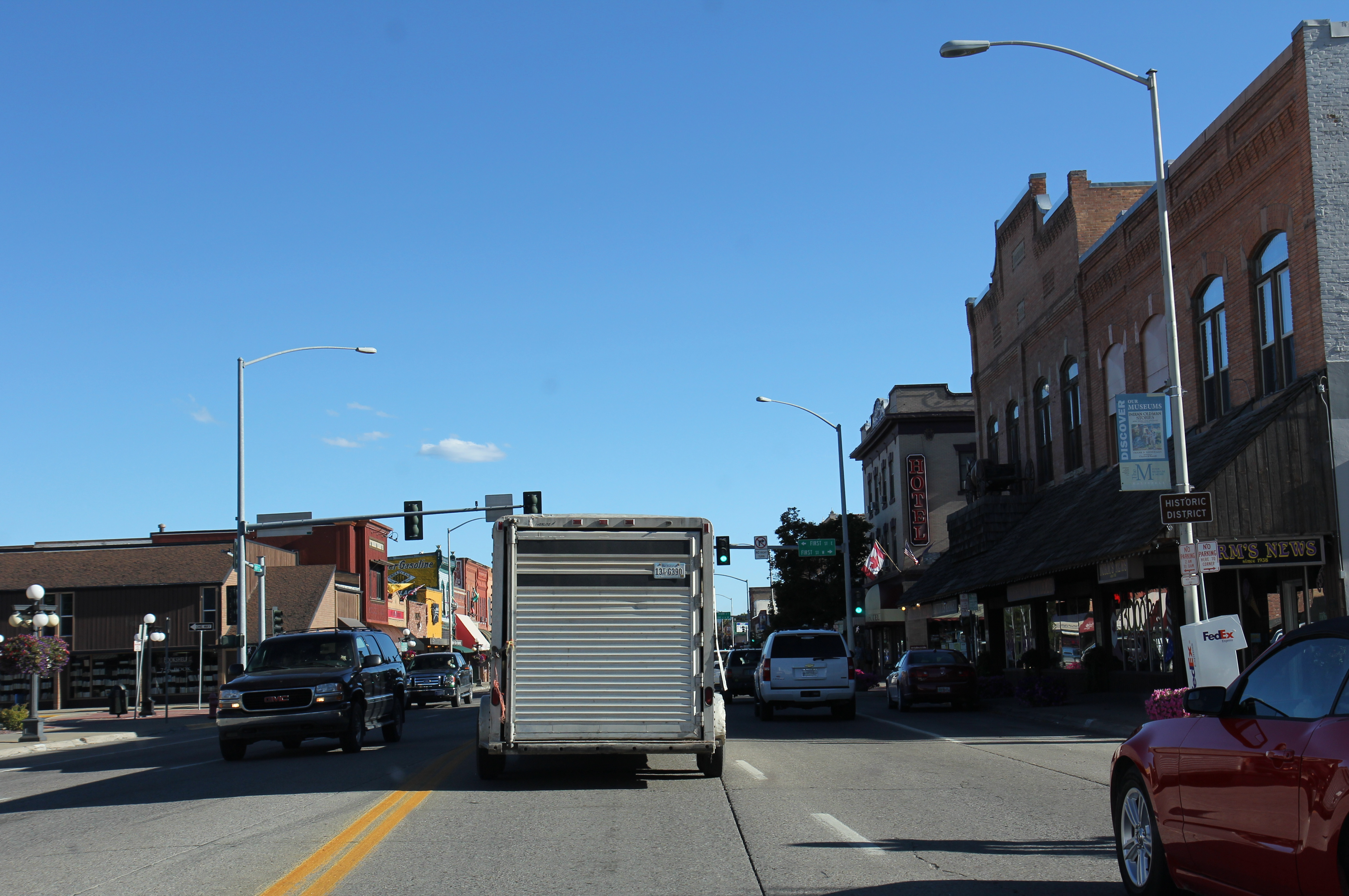 Looking south at the sign for the Kalispell Main Street Historic District.